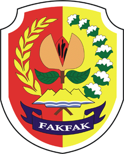 Former Logo of Fakfak Regency